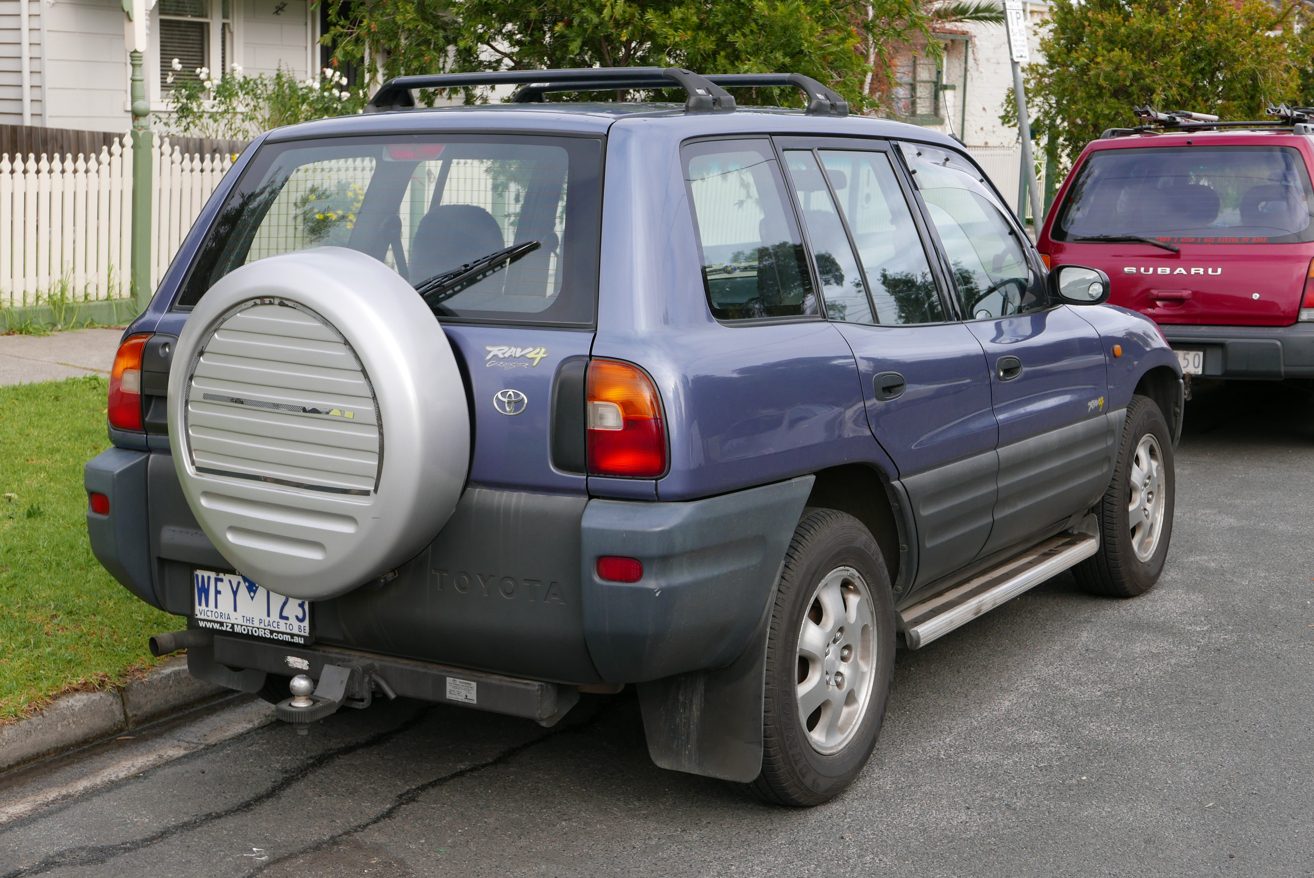 1995 Toyota RAV4 (SXA11R) Cruiser wagon. Photographed in Northcote, Victoria, Australia. Vehicle registration enquiry results Jurisdiction Victoria Registration WFY123 Chassis code JT772SC1100050682 Engine code 3S1972424 Compliance date 1995-10 Year of manufacture 1995